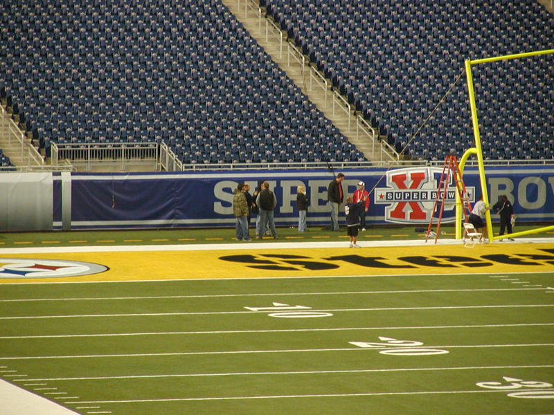 Sorry Steeler fans, I was in a hurry and it was really dark.